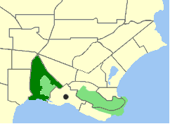 Map of Mount Melville within Albany.